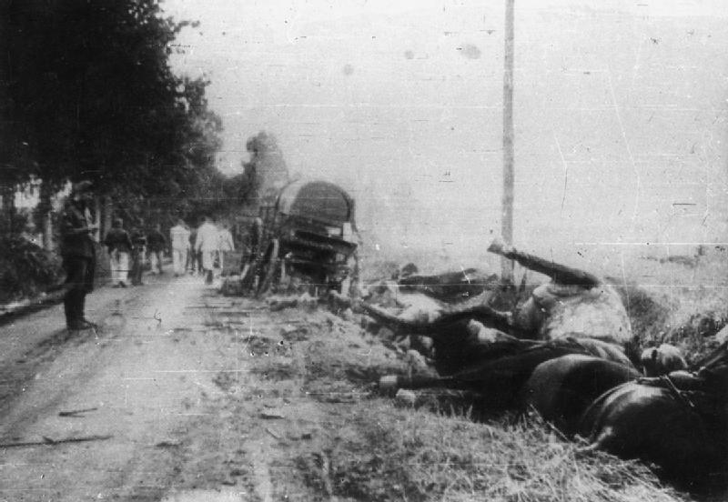 The Nazi-soviet Invasion of Poland, 1939 Death and destruction by the roadside at Kock, where the last battle of the Polish campaign between Polish Independent Operational Group 'Polesie' commanded by General Franciszek Kleeberg and German XIV Motorised Corps led by General Gustav von Wietersheim, took place. Between 29 and 30 September this particular Polish unit was also engaged in victorious battles against Red Army at villages of Milanów and Jabłoń.